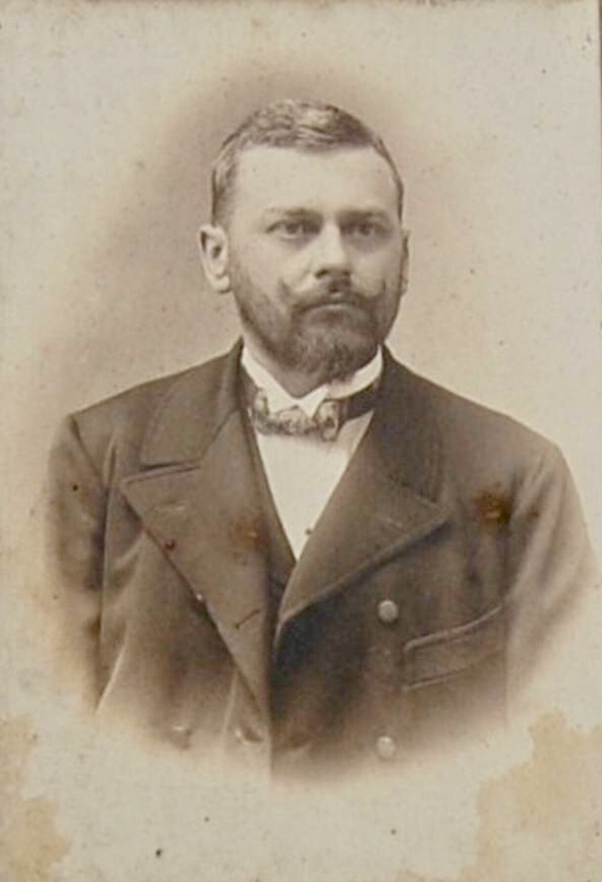 Leopold Traunfellner